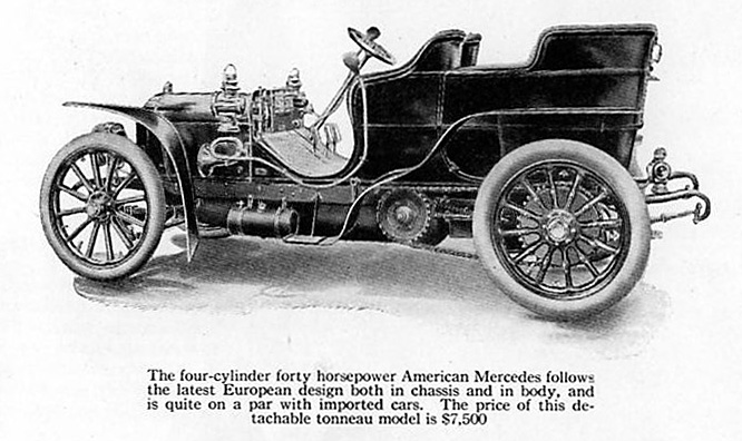 1905 American Mercedes 40 HP Detachable Tonneau, built by the Daimler Motor Company in Long Island City, New York, under licence by German Daimler-Motoren-Gesellschaft, Cannstatt (DMG) In a year when the average wage was only $200 to $400 annually, the Mercedes was a car for the rich readers of Country Life magazine.